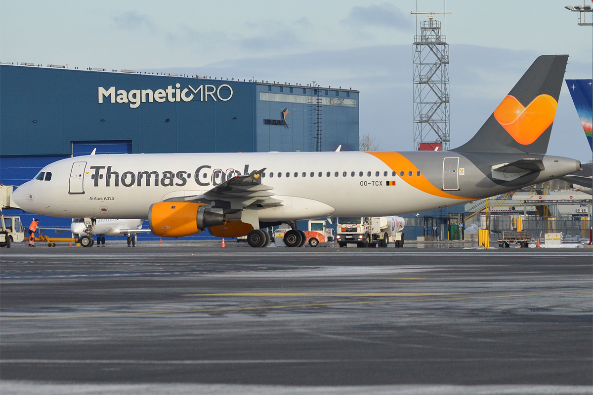 Thomas Cook Airlines Belgium, OO-TCX, Airbus A320-212